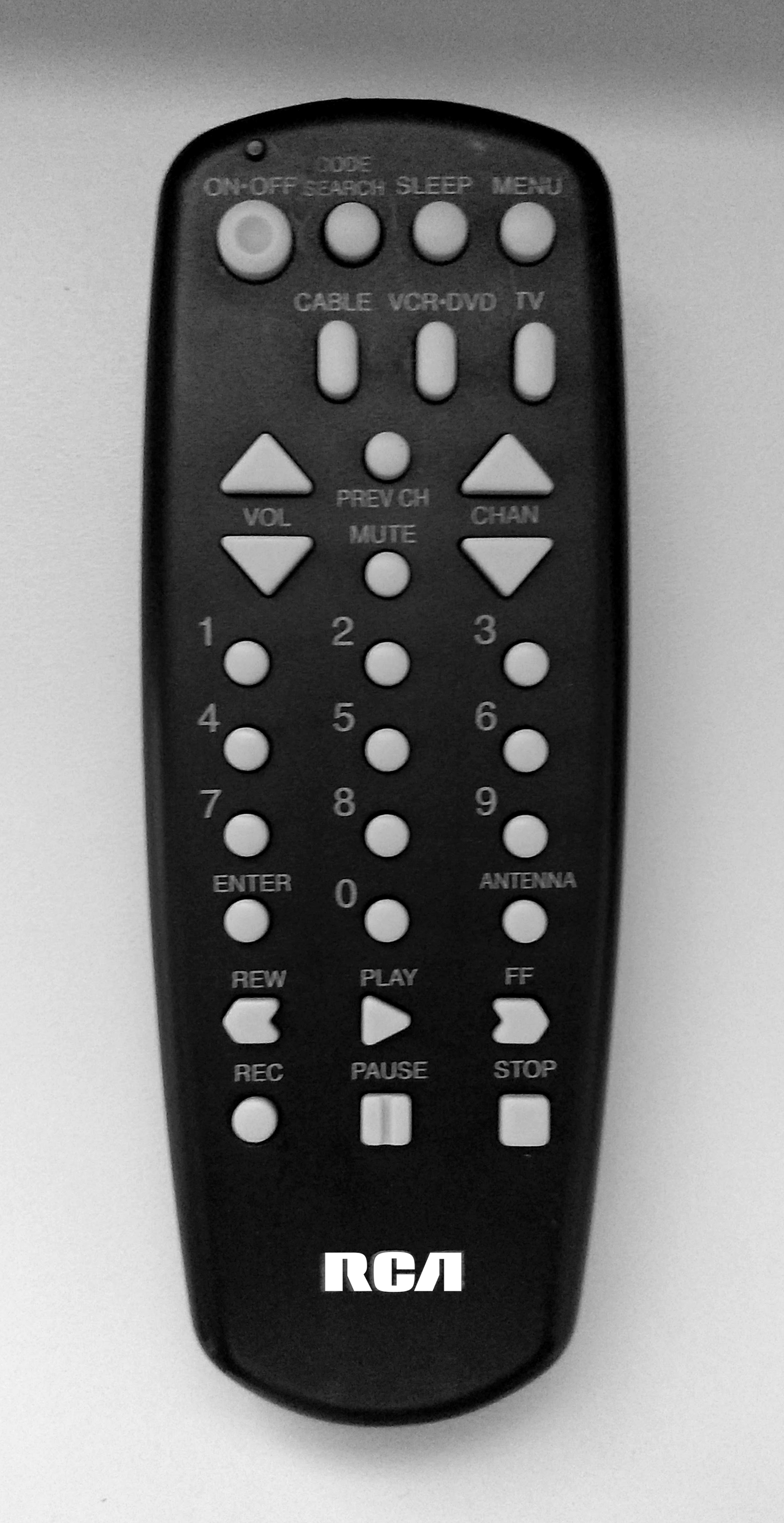 RCA Remote RCU403 Universal 3 in 1, with its modified RCA logo